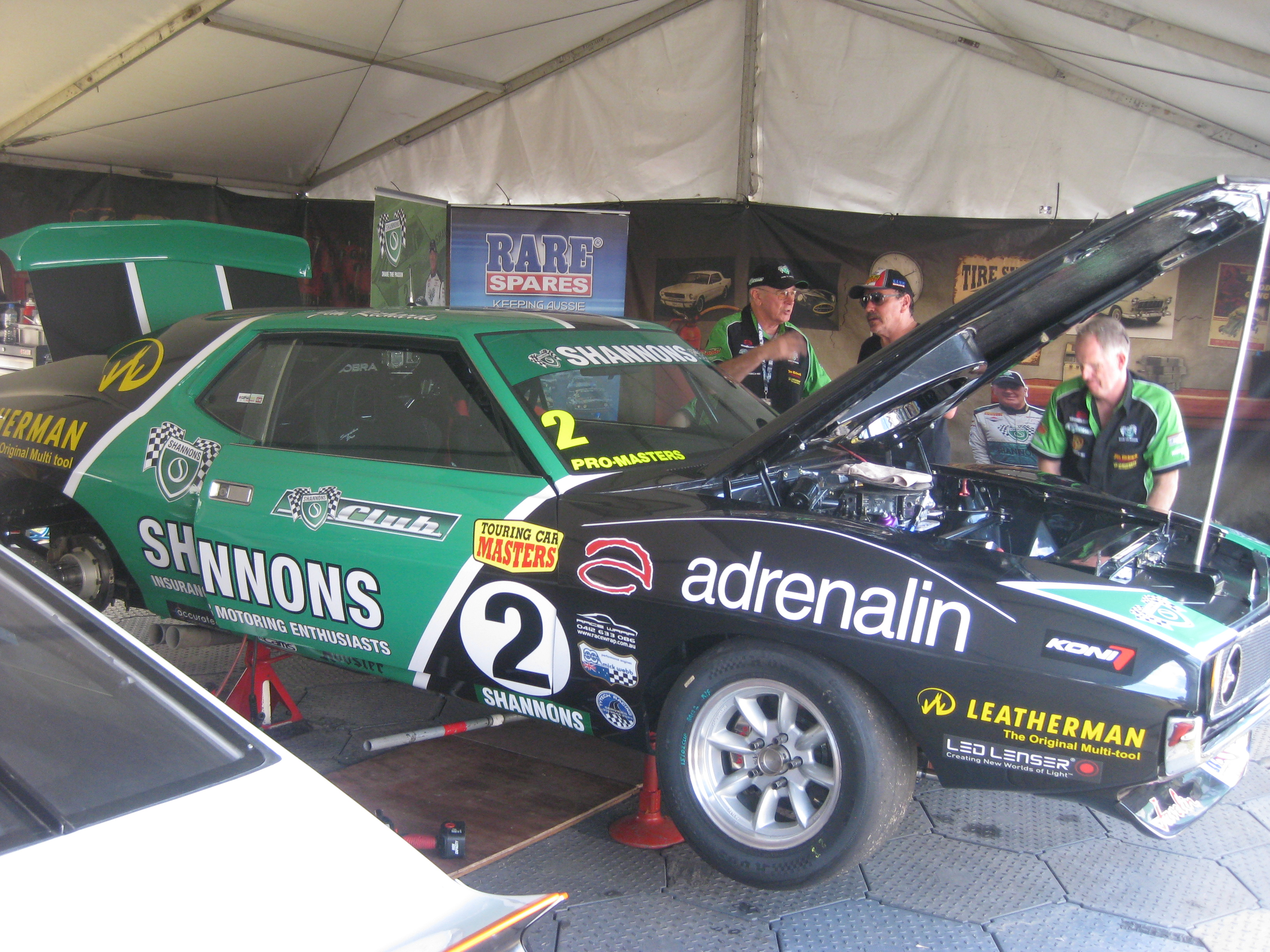 The AMC Javelin of Jim Richards at the Adelaide round of the 2015 Touring Car Masters